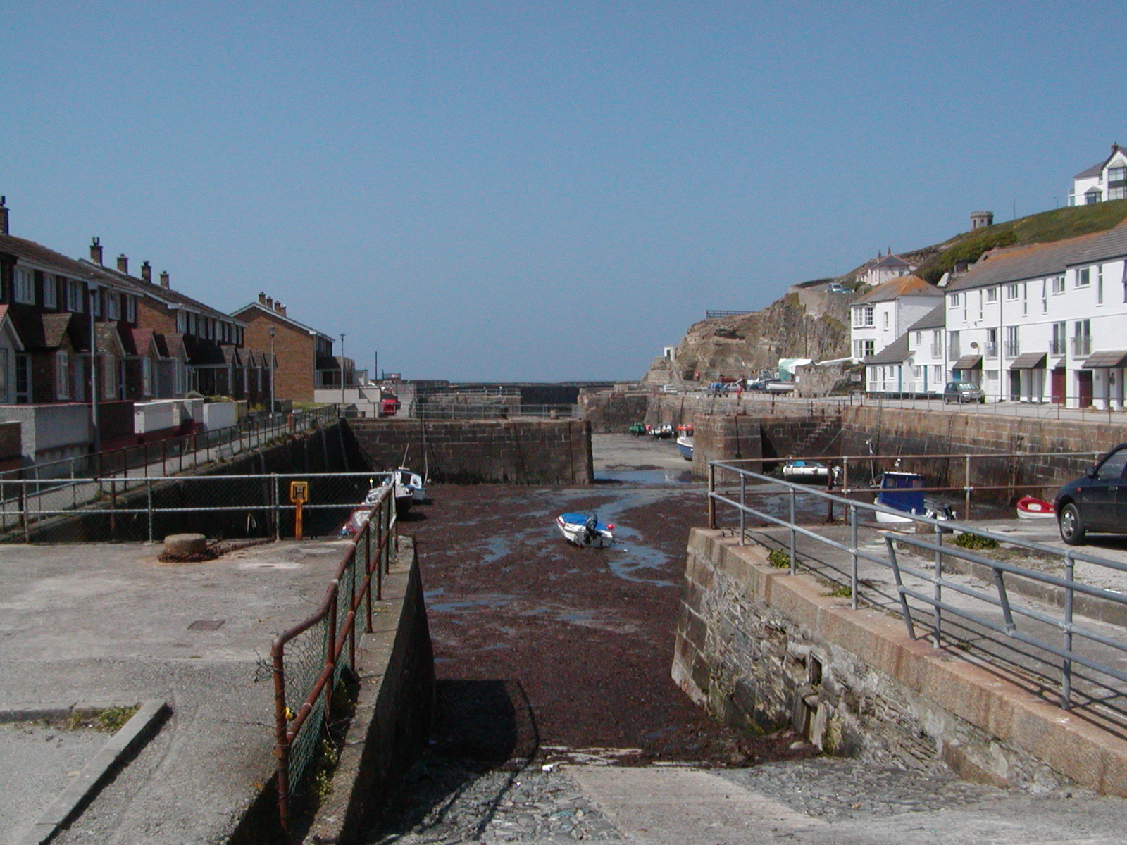 Haven of Portreath, Cornwall at low tide